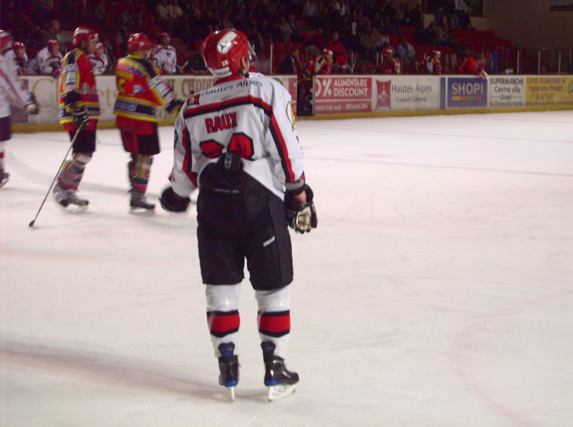 Damien Raux, french ice hockey player with Briançon. Friendly game against Morzine-Avoriaz.